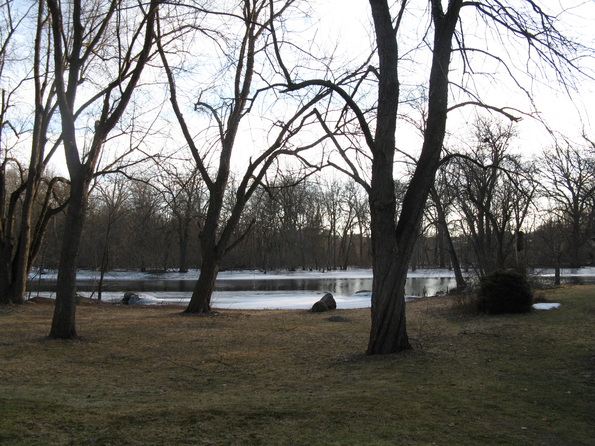 Concord River, North Billerica Massachusetts - from the corner of Waterview Avenue and Pleasant Street